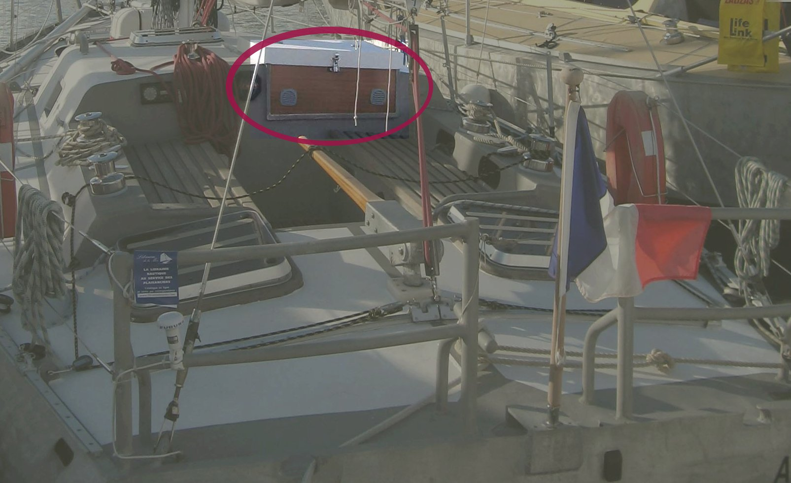 Yacht's entrance